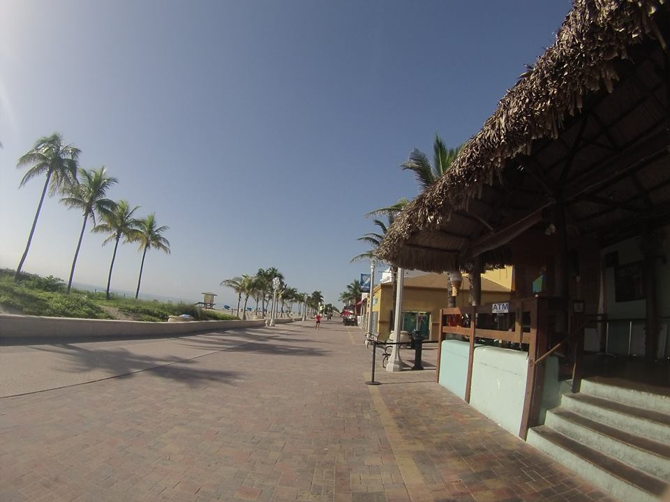 picture taken in August 2014